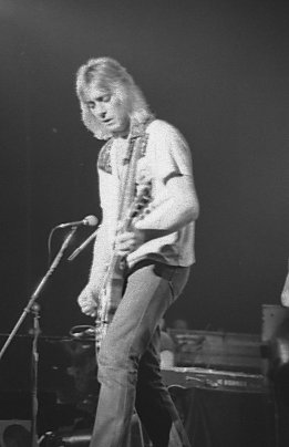 Mick Ronson Massey Hall, Toronto, 1979